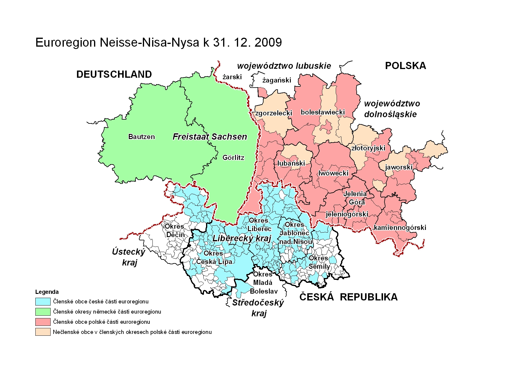 Map of Euroregion Neisse-Nisa-Nysa, participating counties and municipalities. The situation on 31.12.2009